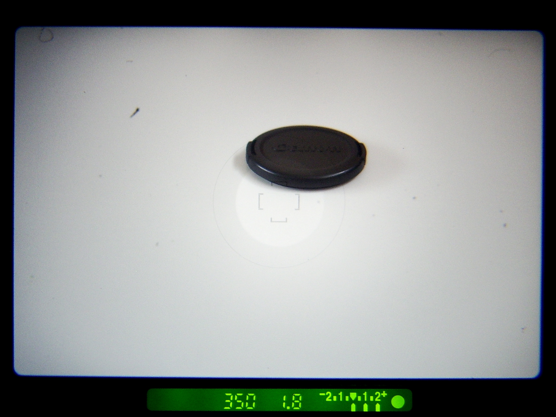 Typical Canon EOS 100 viewfinder information. See for explanation of numbers/symbols.